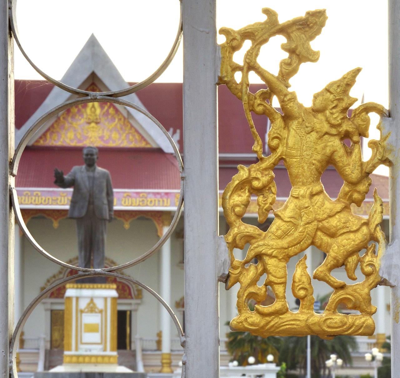 Kaysone Phomvihane was known to have urged the Lao youth after the Pathet Lao took over the Lao government in 1975 to become "Sinxay of the New Era." In honor of this quote when his museum was built the front gate featured embedded images of Sinxay shooting his arrow